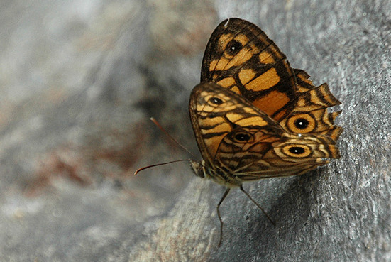 Ringed Xenica (Geitoneura acantha) Lamington NP, SE Queensland, Australia